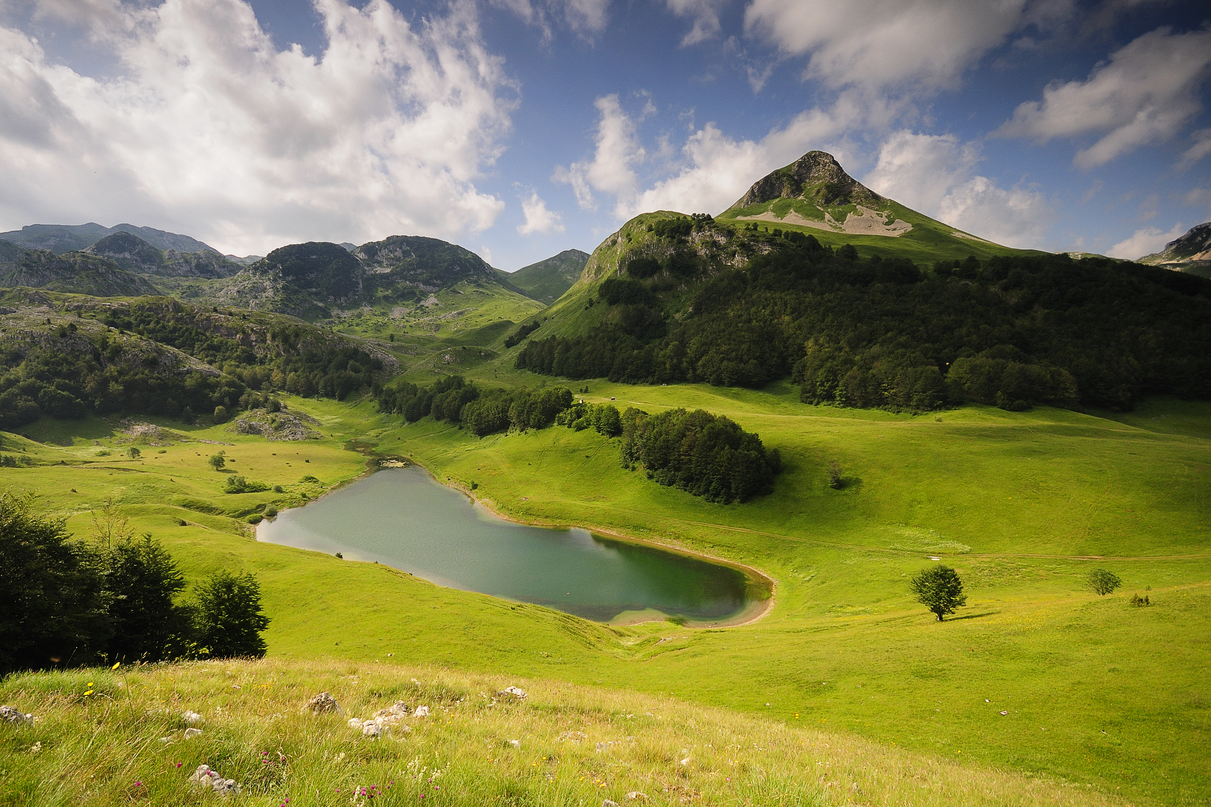 Srpski (latinica): This image was uploaded as part of Trace of Soul 2016.